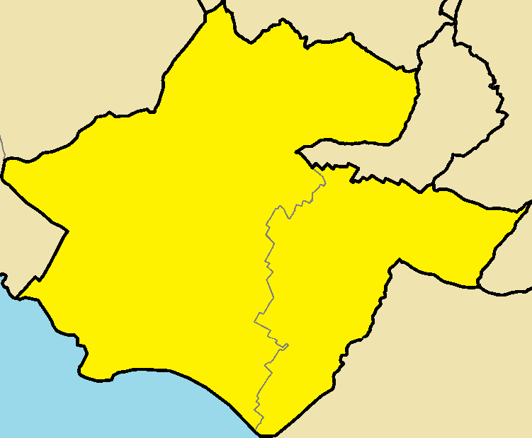 Geroskipou Municipality with quarters.